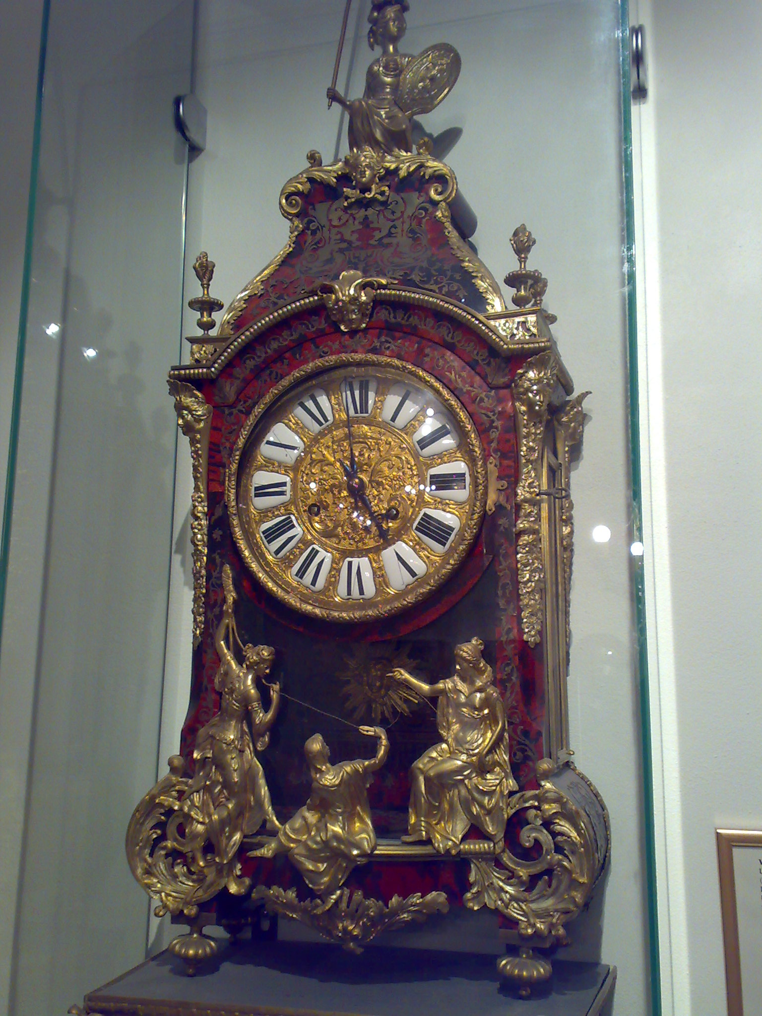 Balthazar Martinot clock, France